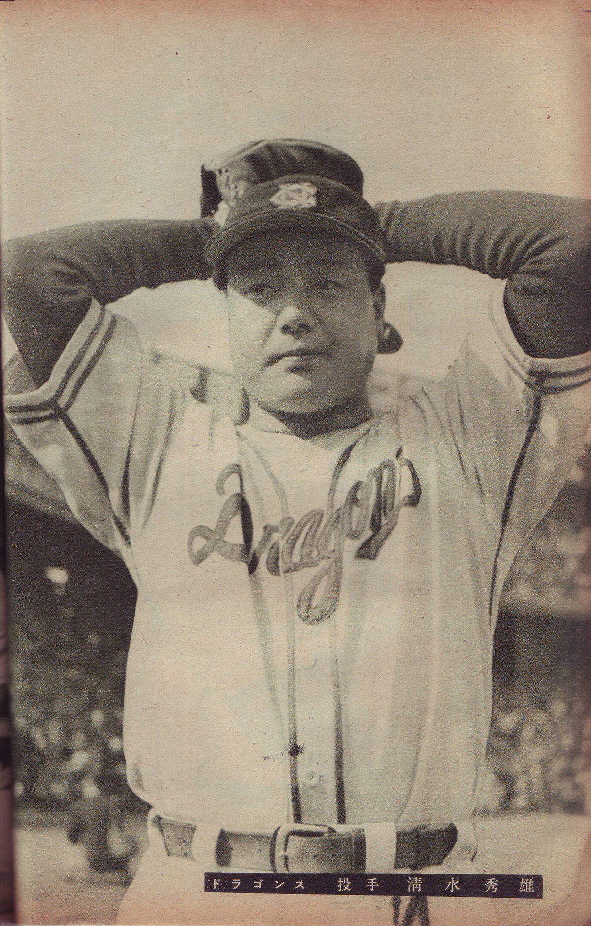 Hideo Shimizu (Chunichi Dragons). taken in 1950.